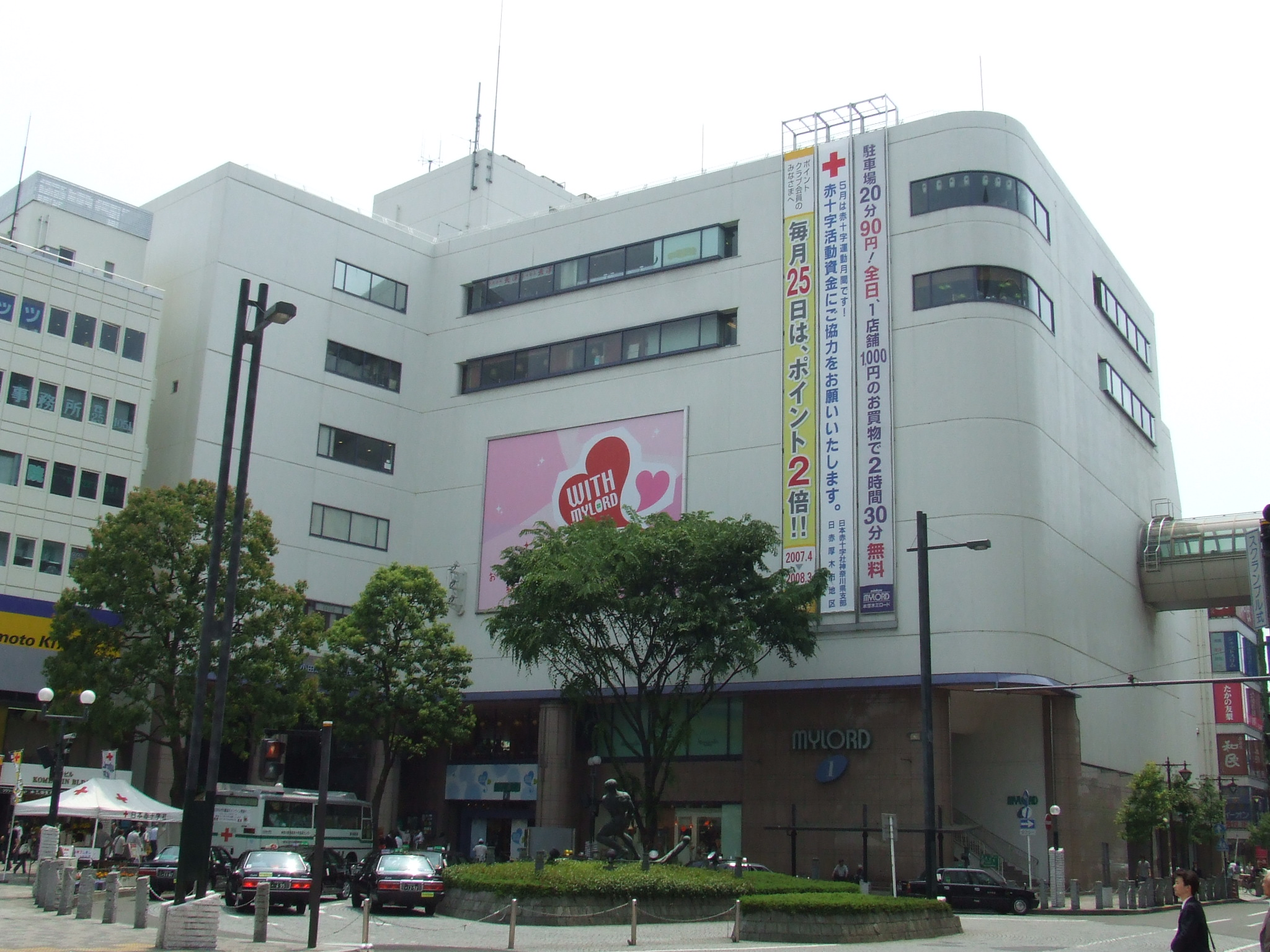 North building of Hon-Atsugi station, OER ODAWARA LINE, Odakyu Electric Railwey, Japan